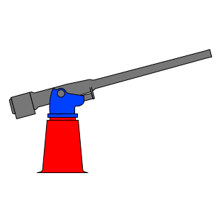 Schematic diagram of a Pedestal gun mounting. Red = fixed mass, blue = rotating mass.